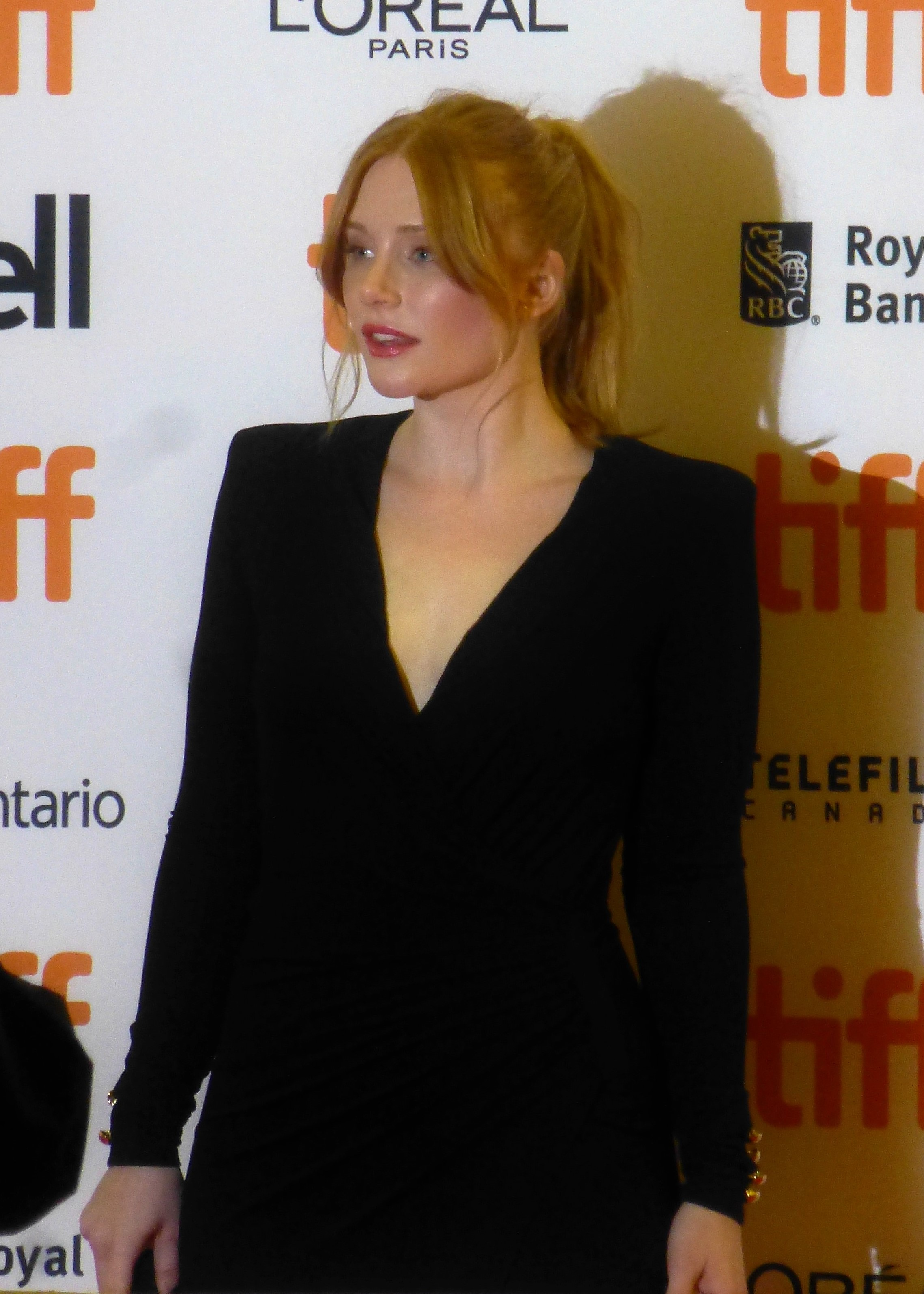 Bryce Dallas Howard at the premiere of Nocturnal Animals, 2016 Toronto Film Festival